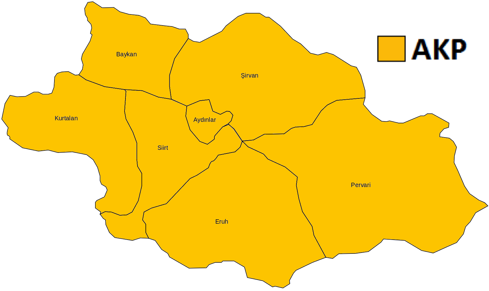 Shirt by-election of 2003 by district, adapted from